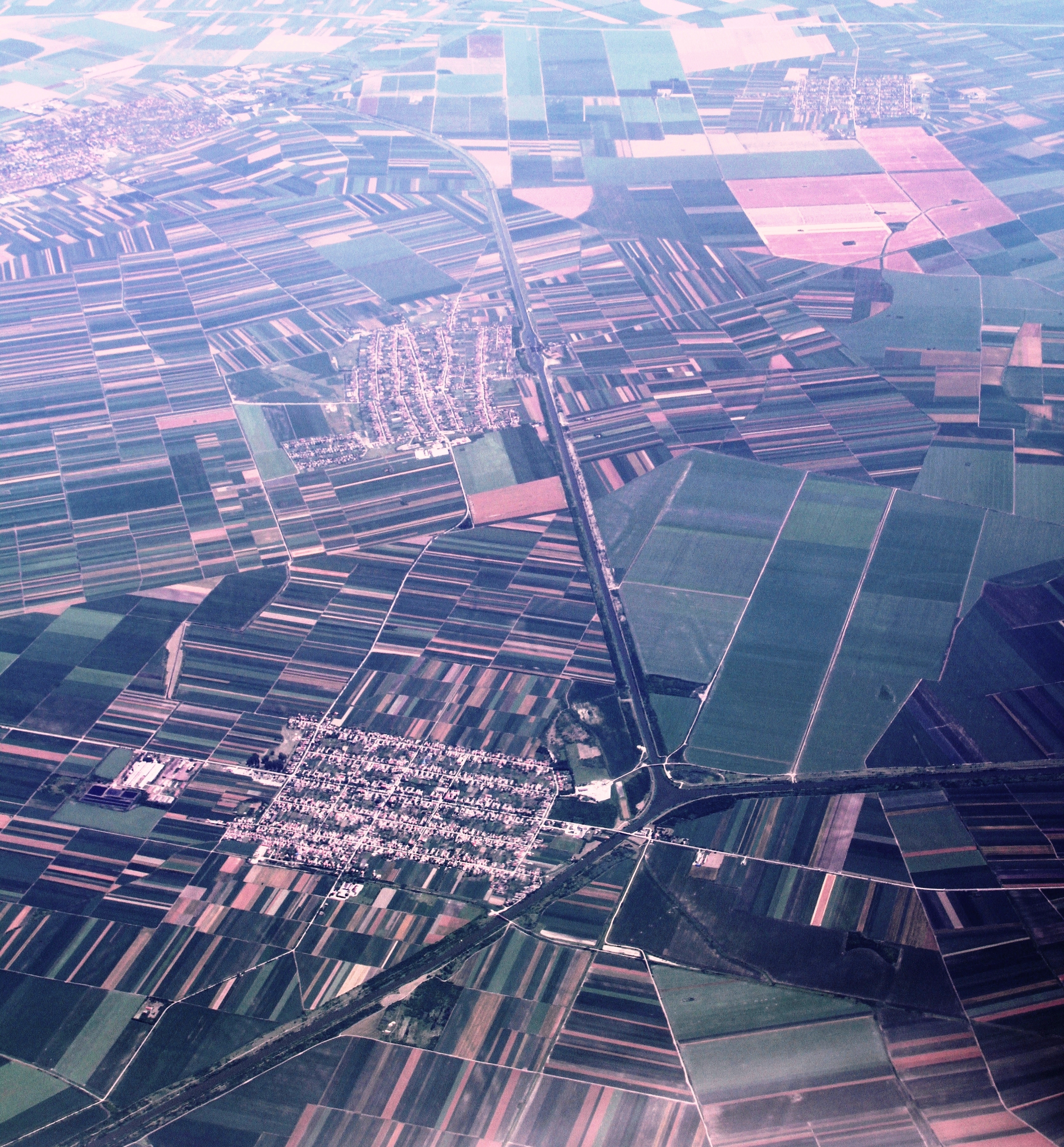 Aerial view from the west towards east, over the Ravno Selo and Savino Selo area in Vojvodina, northern Serbia